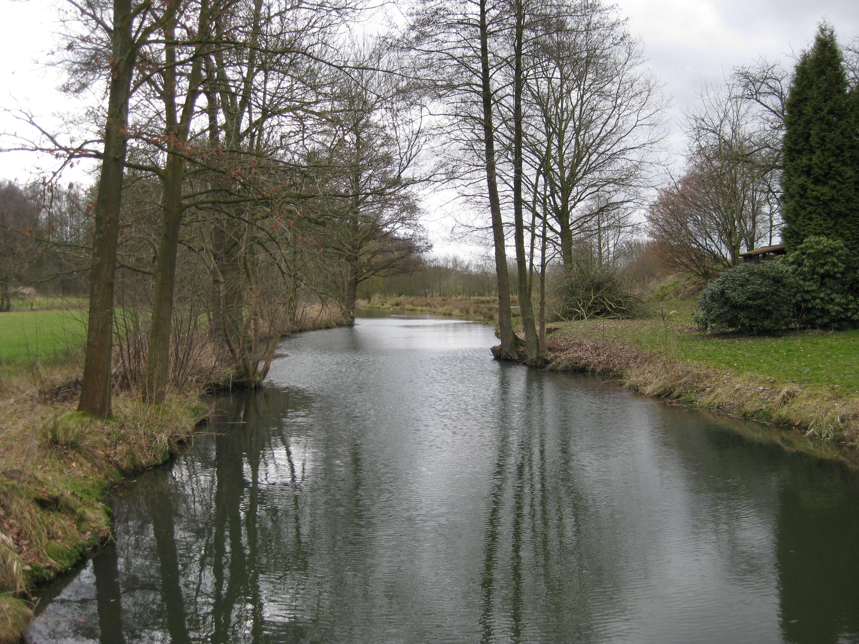 Warmenau in Spenge at the Martmühle (Mühle = Mill), the creek marks the border between North Rhine-Westphalia (left) and Lower Saxony (right) here